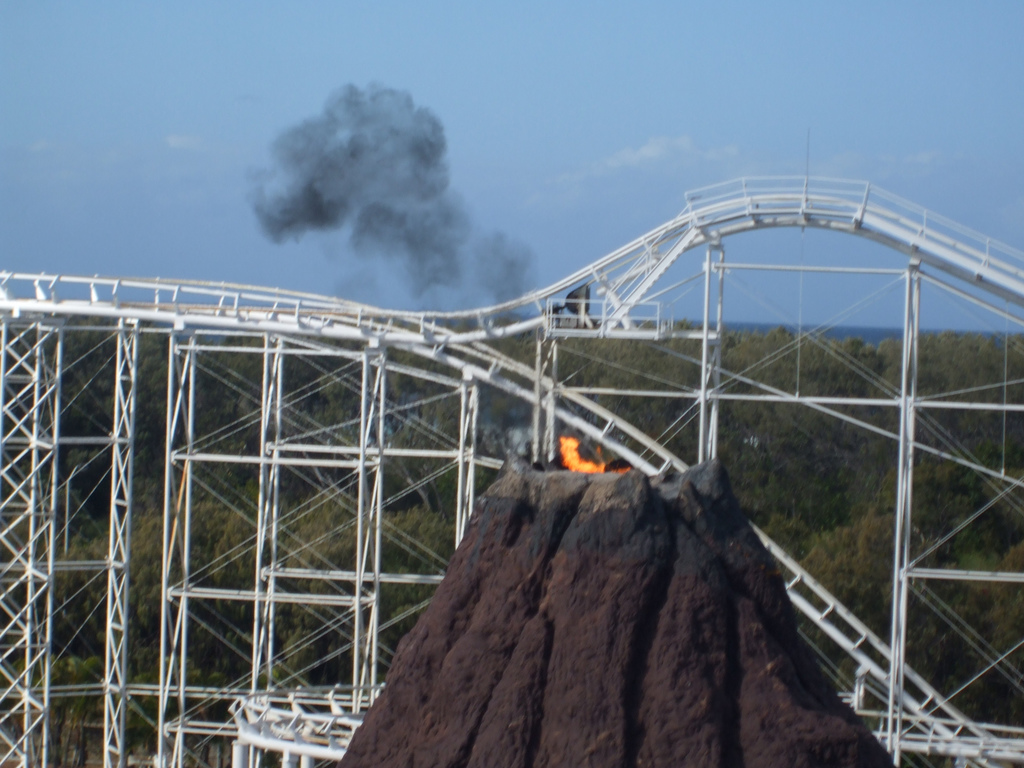 Flame and Smoke at the Bermuda Triangle Ride at Sea World.